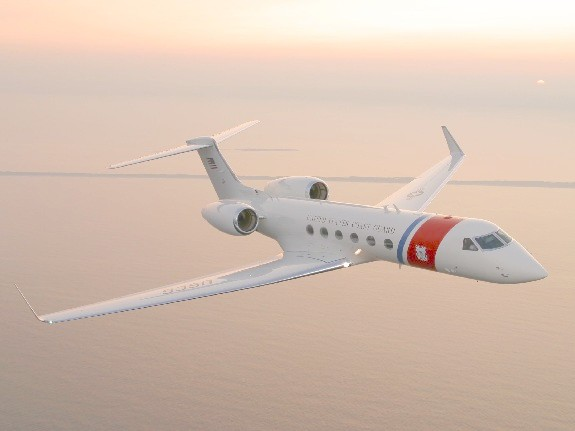 USCG C-37A in flight.